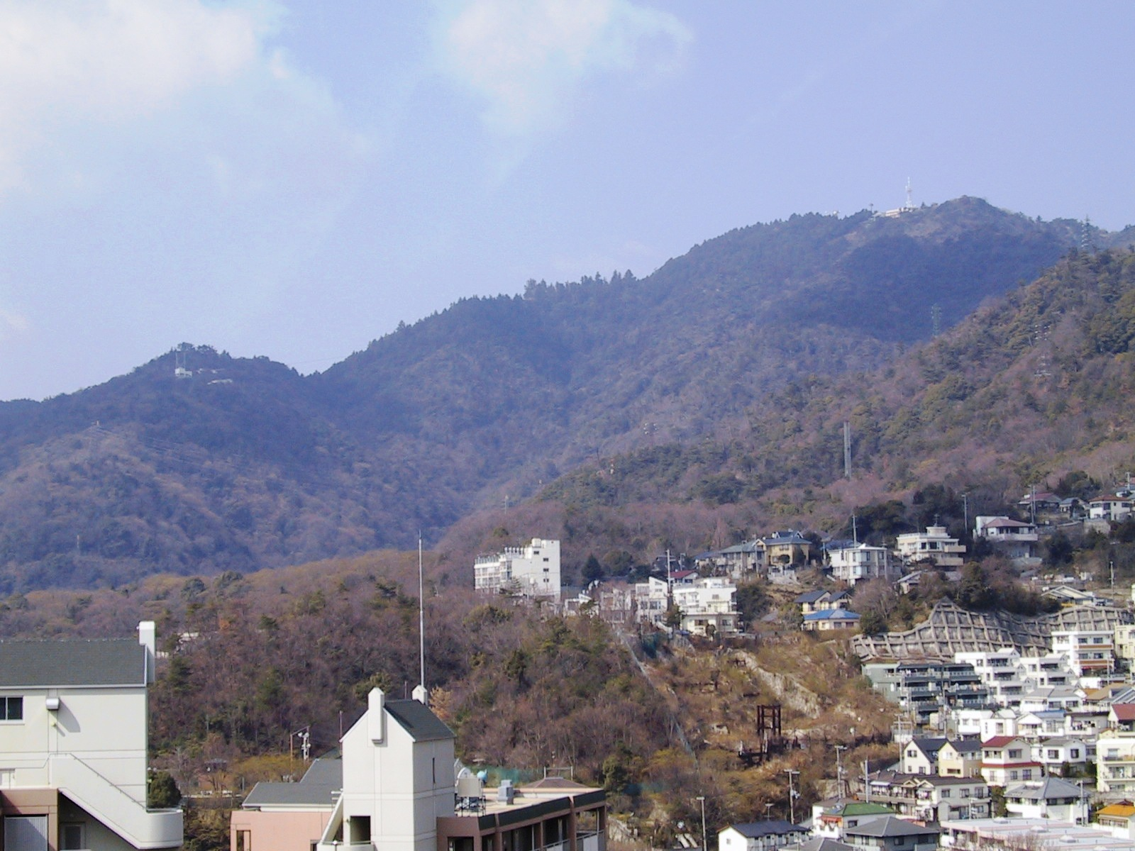 Mount Maya from Kobe University, Kobe Hyogo, Japan.